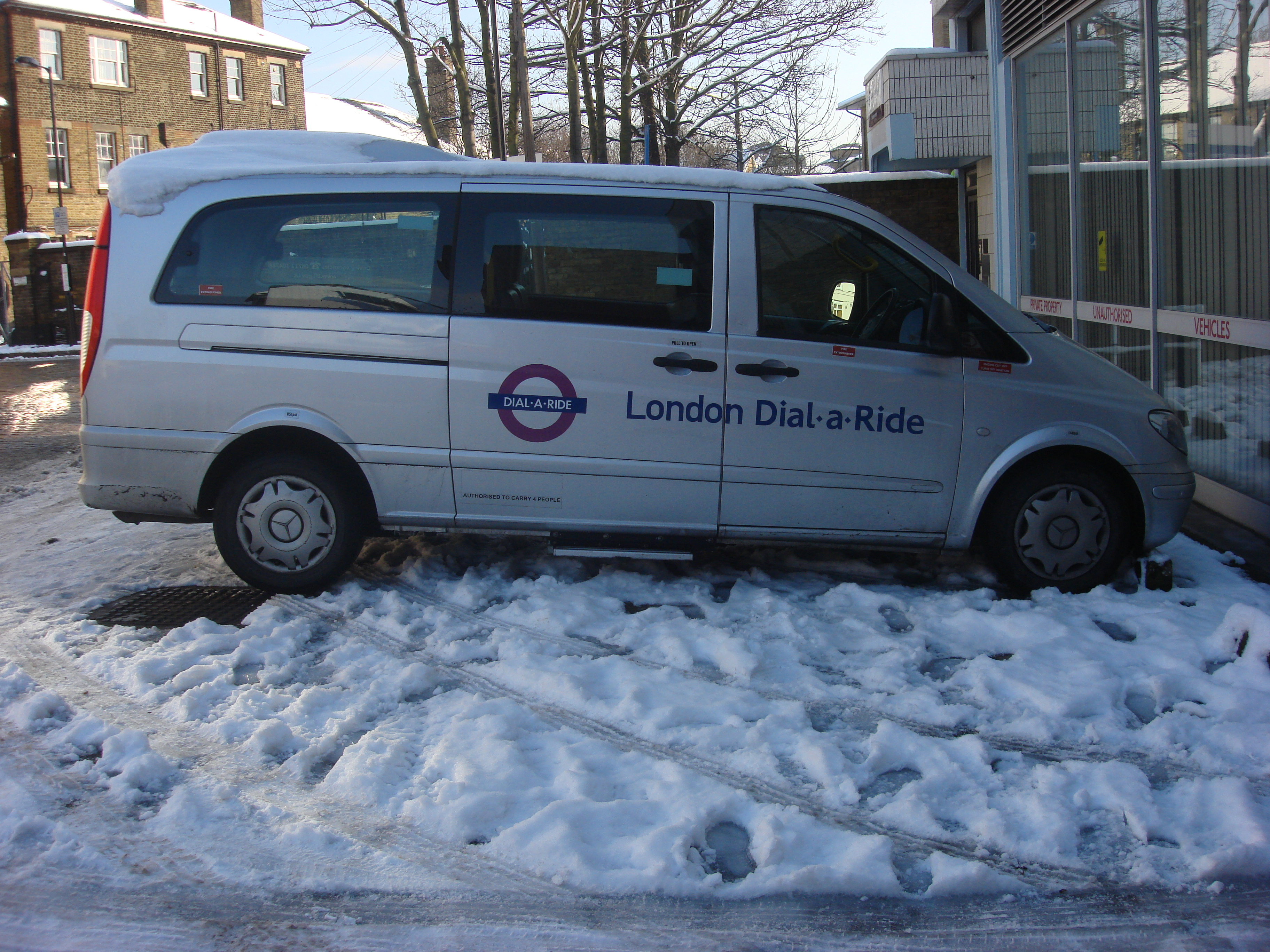 London Dial-a-Ride's D561 (HX06 BXU), a Mercedes-Benz Vito minibus.